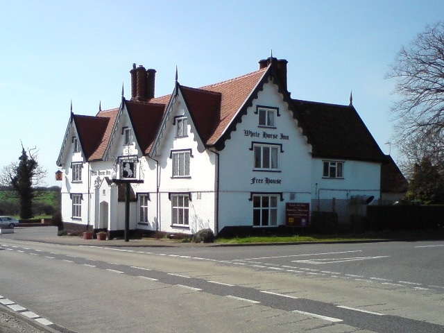 The White Horse Inn at Sroke Ash